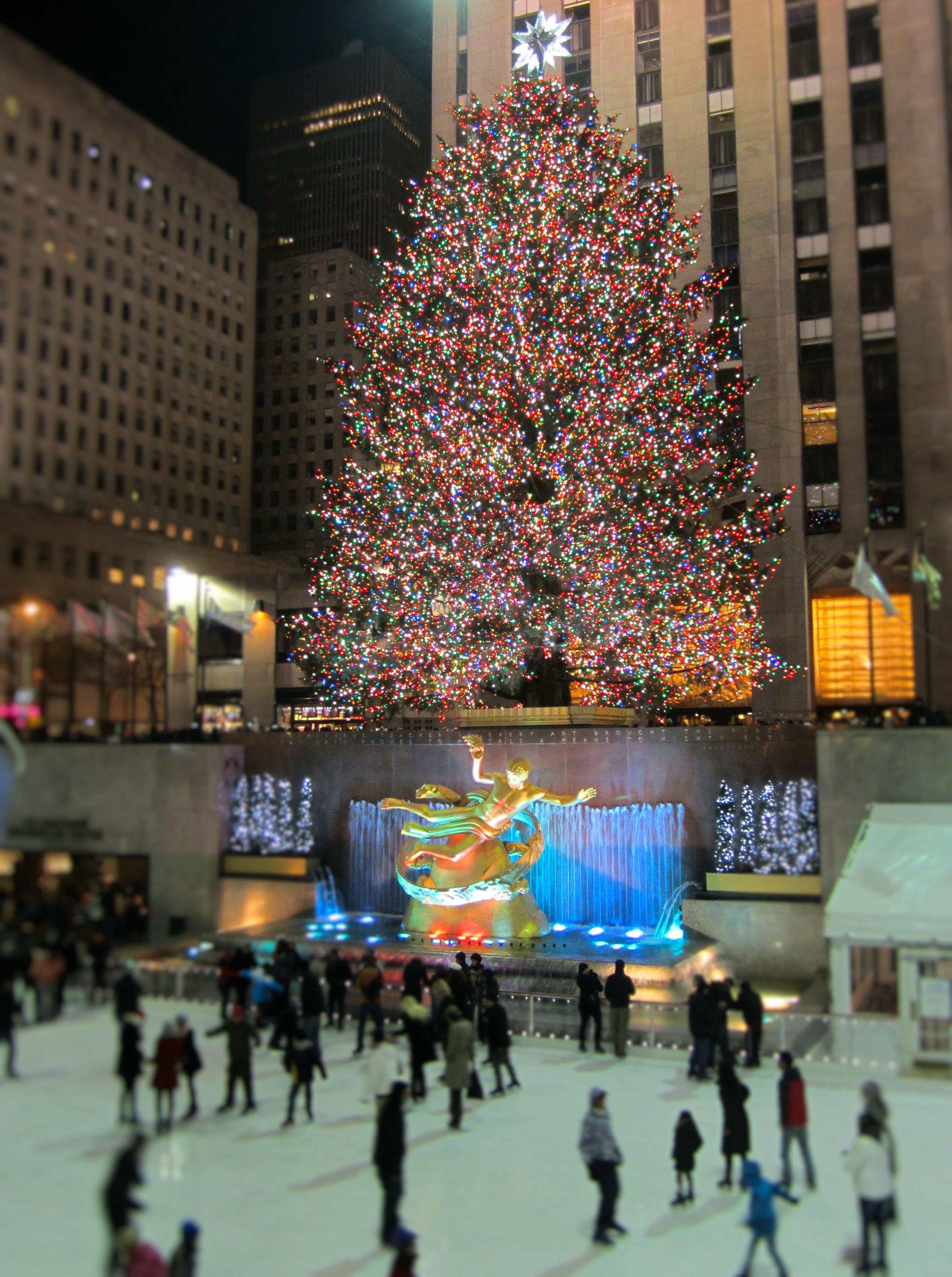 The Christmas Tree in front of the Rockefeller Center.